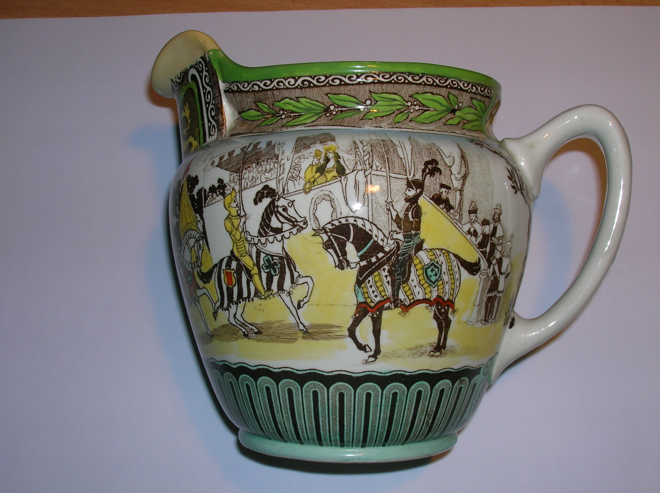 An Eglinton Tournament Jug from 1839. Irvine, North Ayrshire, Scotland.